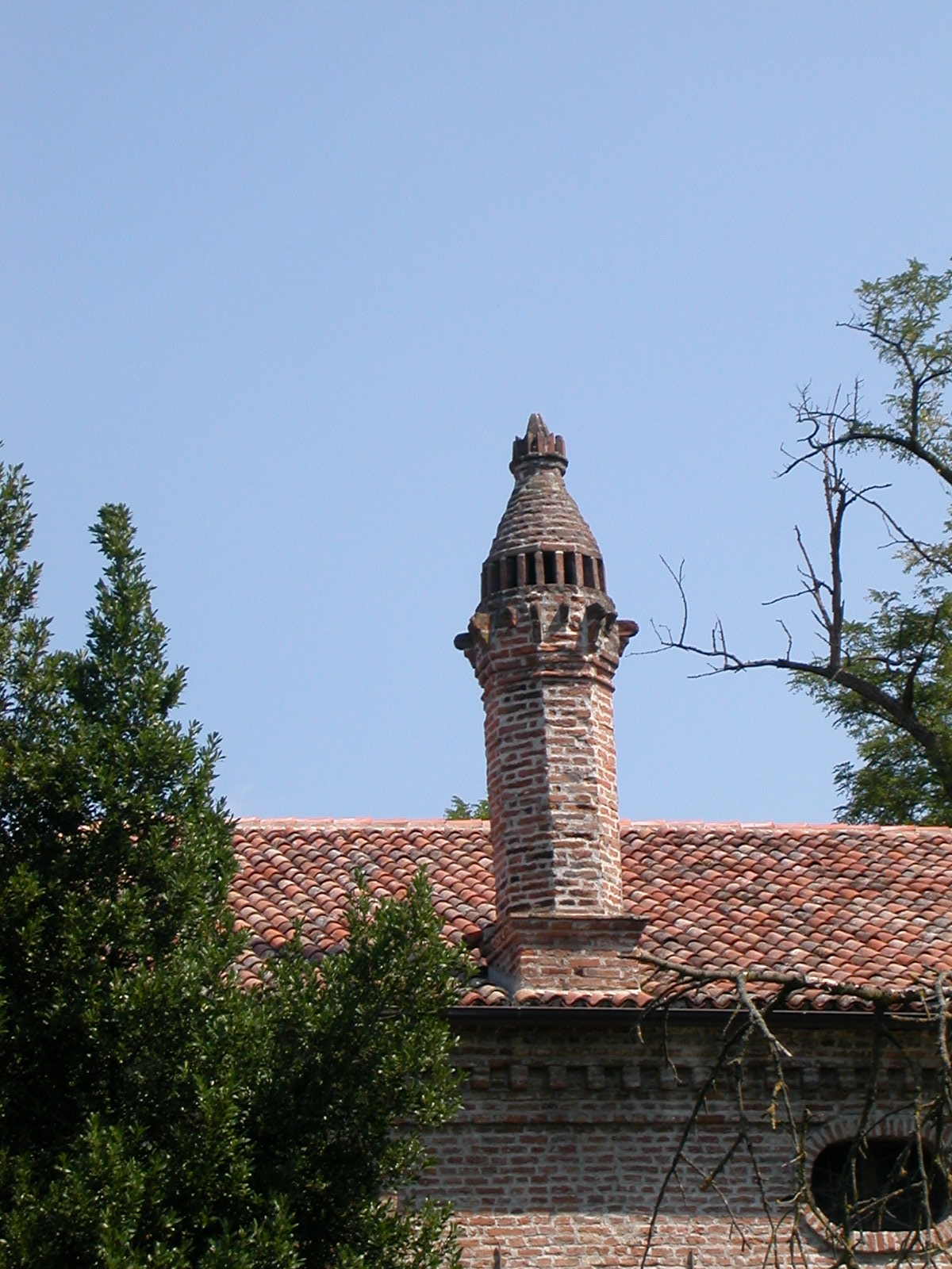 Hunting lodge, Arquà Polesine; chimney detail.